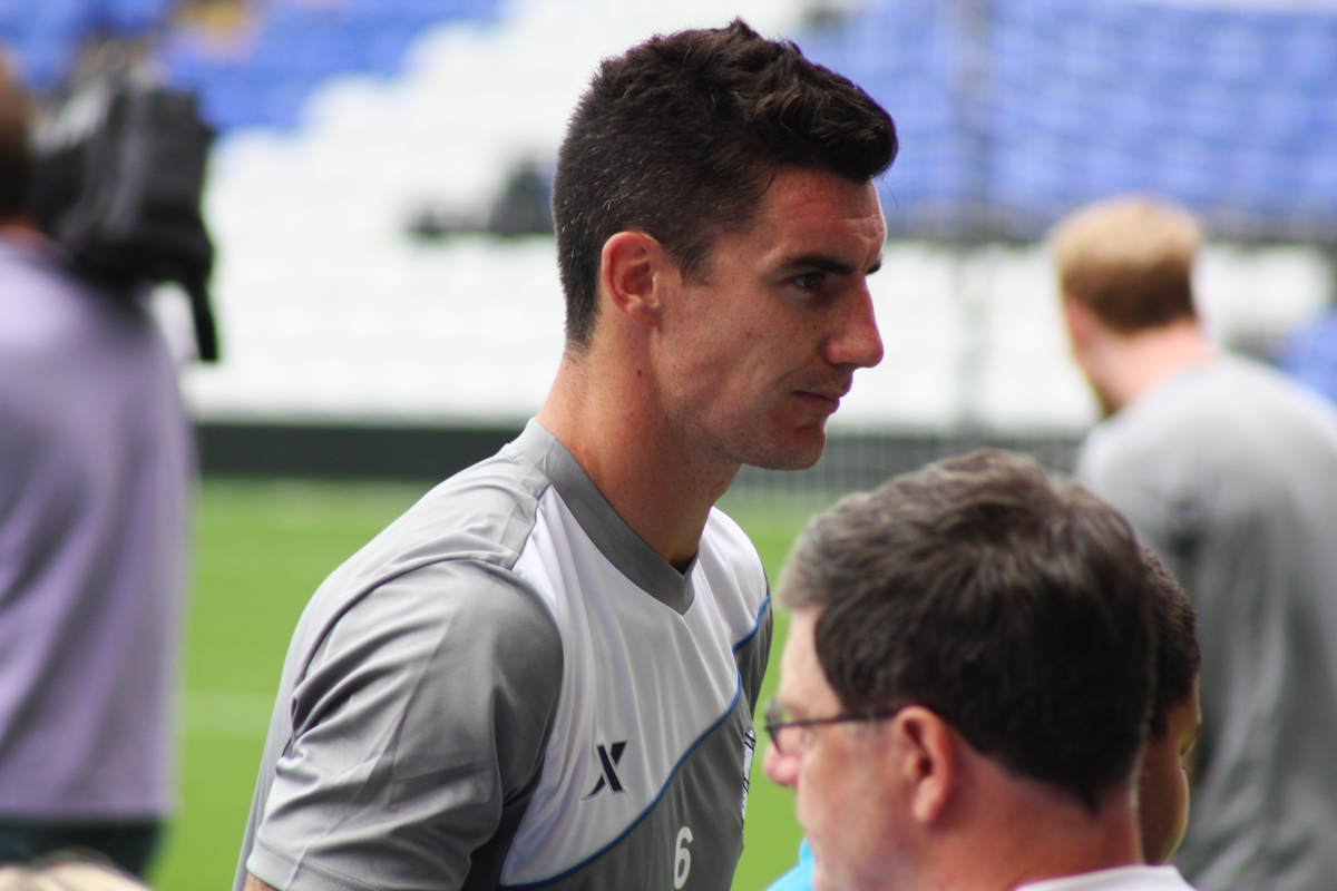 Liam Ridgewellf at Birmingham City open training session at St.Andrews' Stadium.